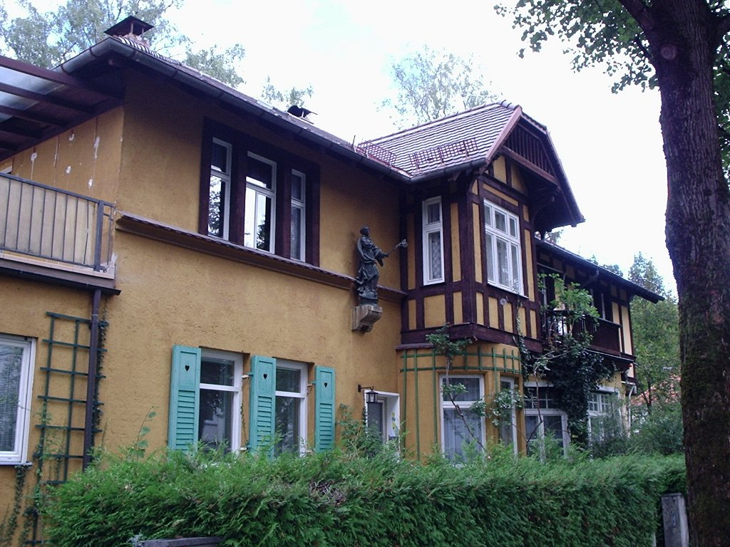 Listed building at Diefenbachstraße 12/14, Solln, Munich, Germany. Built in 1902 by Gustav Schellenberger. Among the former residents are the painter Albert Welti and the Nazi politician Ernst Boepple.